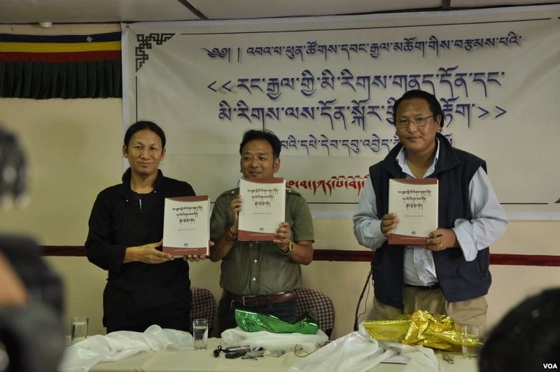 Bawa Phuntsok Wangyal Book Launch